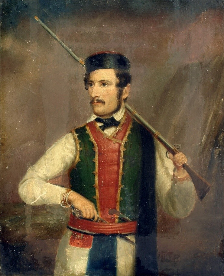 Vukolaj Radonjić, the last gubernador of Montenegro